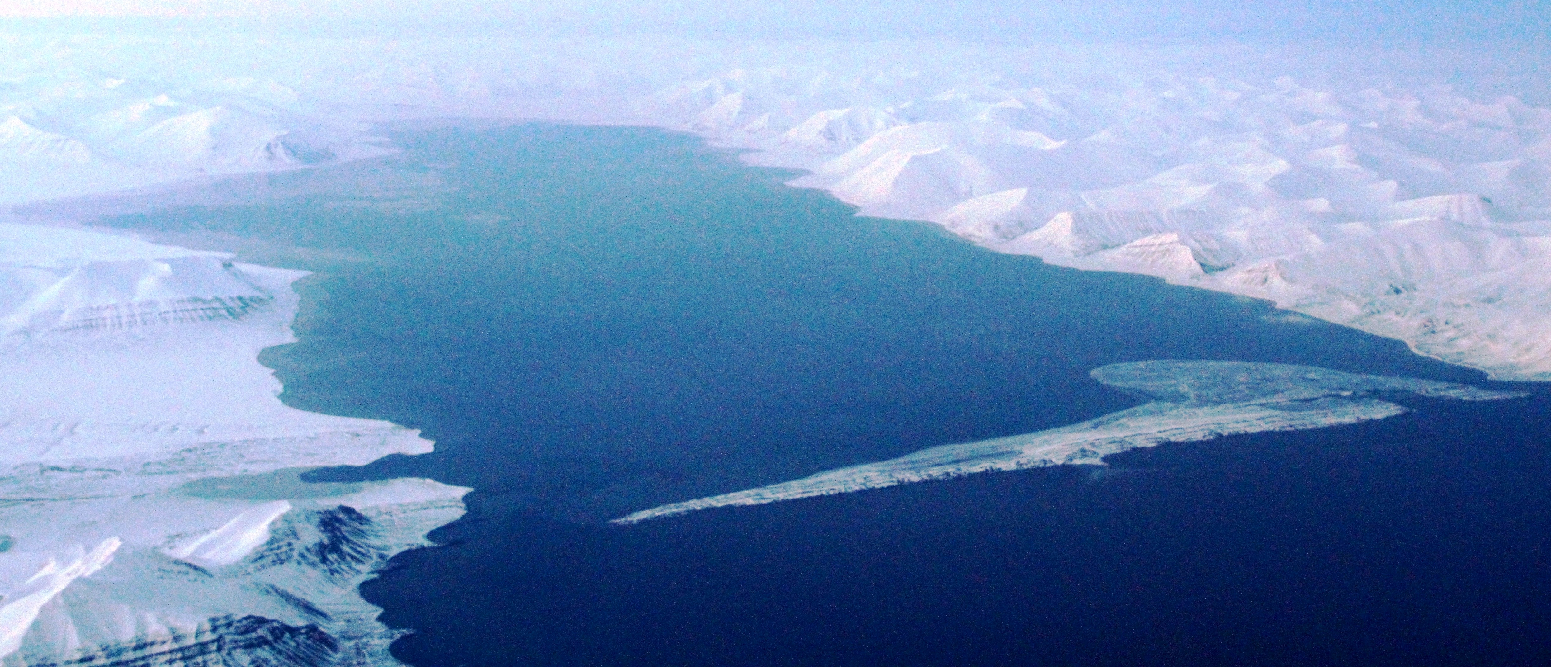 Image from the west towards east, of the western Nathorst Land, and van Mijenfjorden fjord. Spitsbergen, Norway.